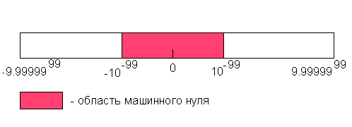 Machine zero implementation